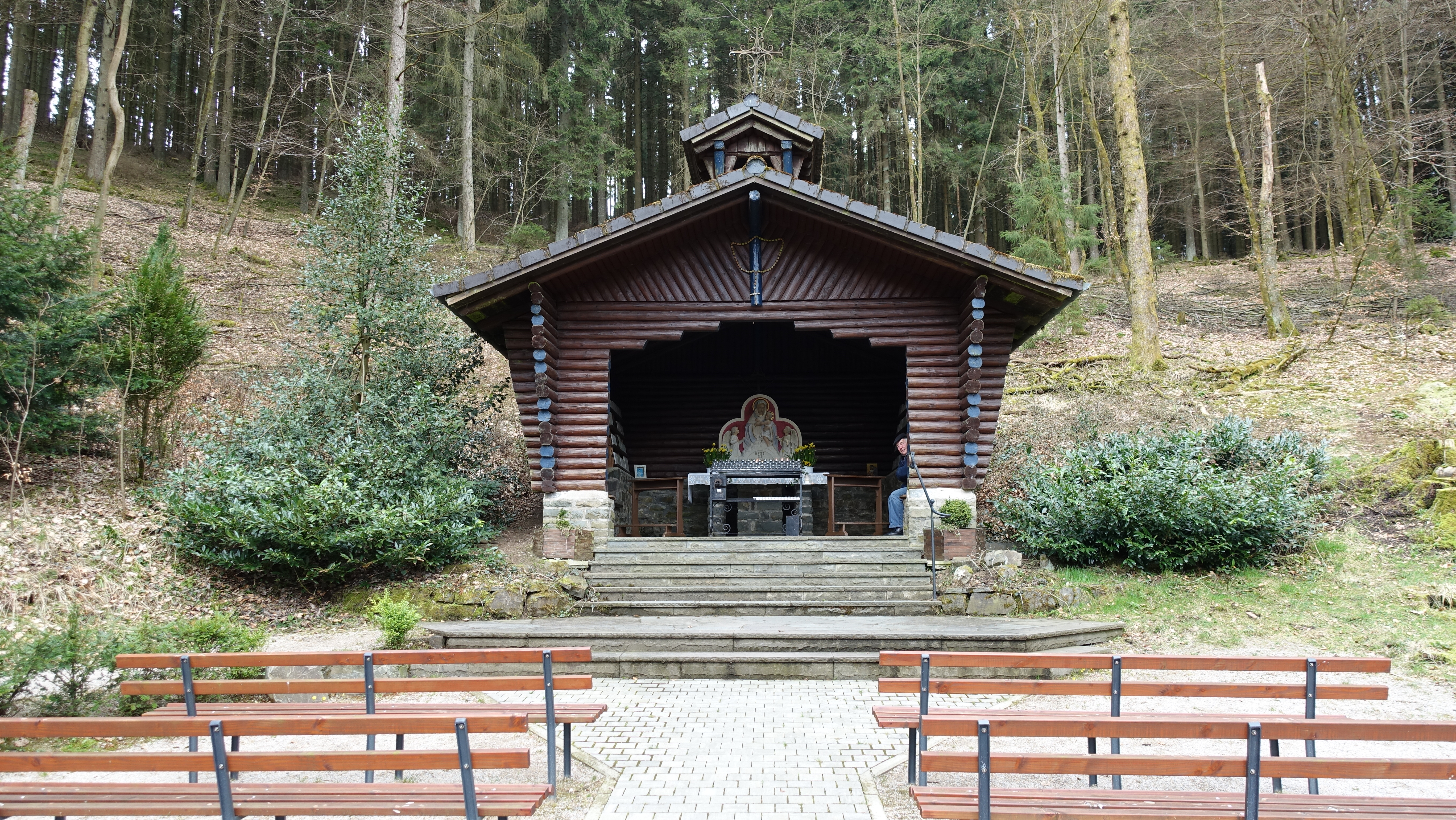 St. Mary Chapel Huenkesohl near Drolshagen, Westfalia, Germany, frontal view